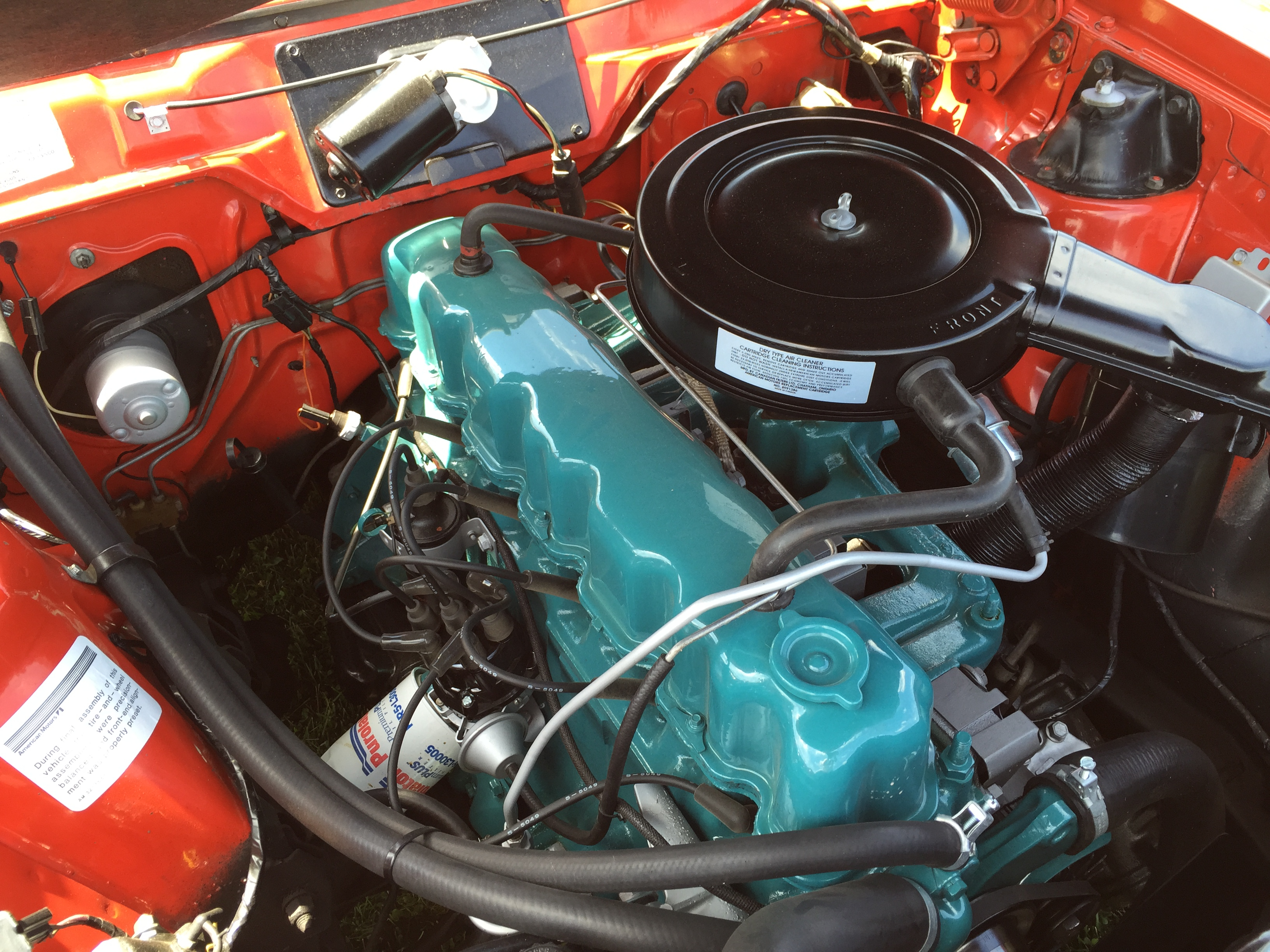 1974 AMC Gremlin with X package. An economical and sporty subcompact built by American Motors Corporation. This car has the original "Trans-Am Red" paint with white X stripes. The interior has the standard bucket seat interior upholstered in "Fairway" black with red inserts. The 258 cu. in. (4.2 L) I6 engine is backed by a 3-speed automatic with floor-shifter. The X package included numerous appearance and trim features (including the styled wheels, painted grille, sport steering wheel, etc.) as well as the factory optional roof rack and roof spoiler. Picture taken during the American Motors Owners Association (AMO) annual convention that was held July 2015 near Cleveland, Ohio.